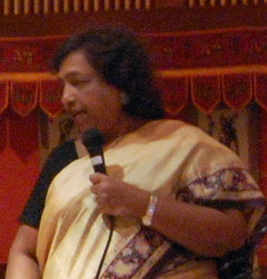 Irene Fernandez (standing in front), a reknowned Malaysian campaigner for the rights of the poor, graced the closing program of our DTP course on trade and human rights. In 1996, the Malaysian government charged her with "maliciously publishing false news" when she reported the abuse of migrant workers in Malaysia. Her sensational trial was the longest in the history of the Malaysian justice system after which she was sentenced to 1-year imprisonment. The case is currently on appeal. In 2005, Irene Fernandez was given the Right Livelihood Award "for outstanding vision and work on behalf of our planet and its people". During the training, I also have the honor of drinking a few beers and whiskey with Andre Frankovits (front row, second from the left) who was a long time campaigner for Amnesty International and the current Executive Director of the Human Rights Council of Australia. Nikon D40 (DTP Course on Trade and Human Rights, March 2008).